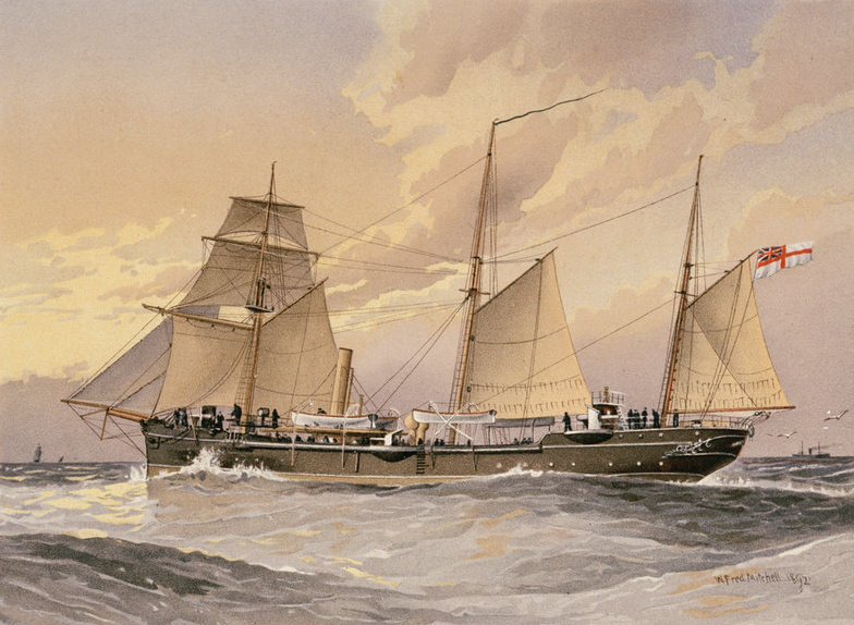 HMS Thrush